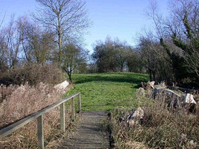 Giant's Hill Giant's Hill was constructed as a castle mound by King Stephen's forces to counter the fenland rebellion of Geoffrey de Mandeville, but left unfinished when de Mandeville died in 1144. The site is managed by Cambridgeshire County Council Farms Estate.